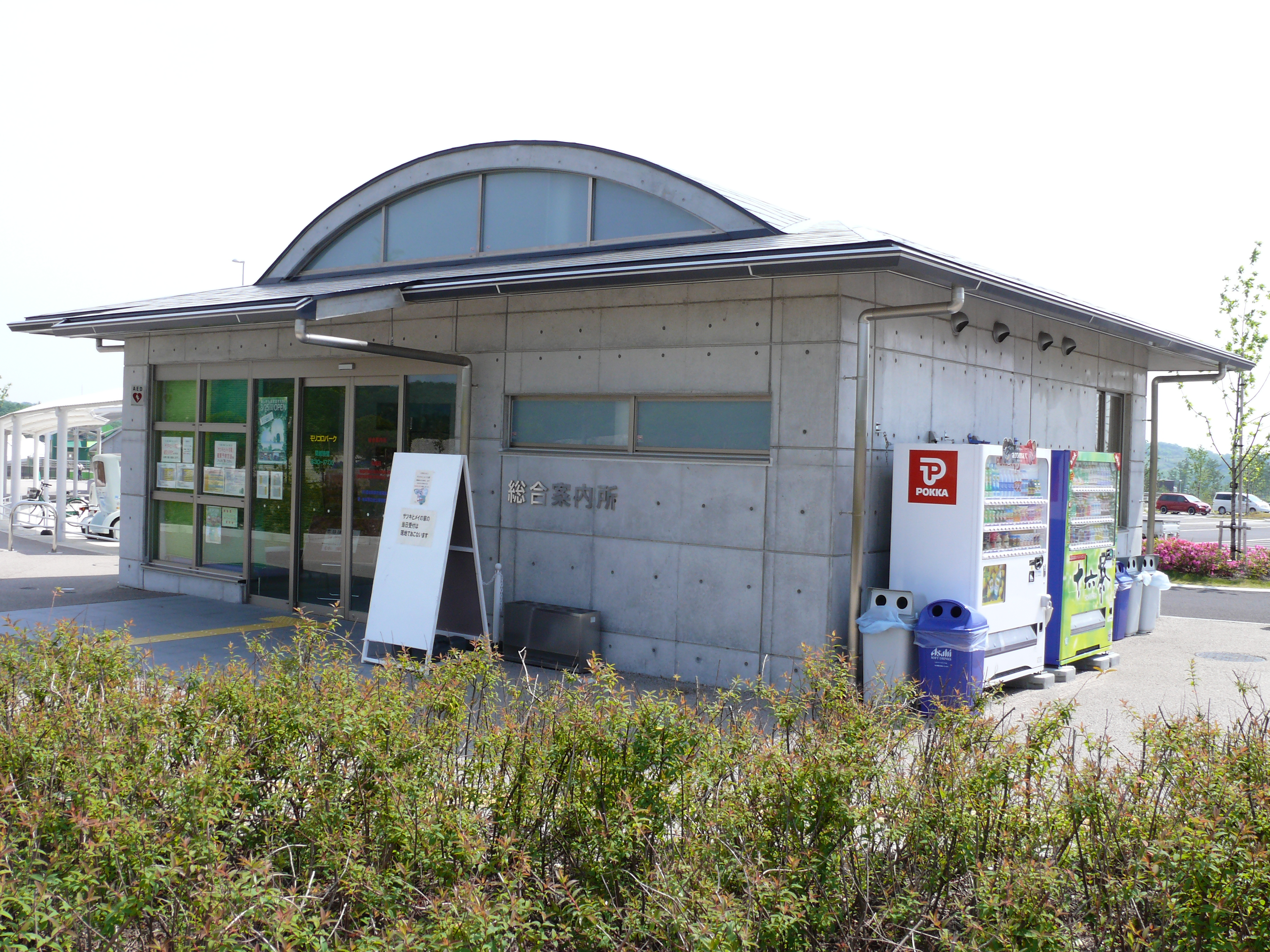 Ai･Chikyuhaku Kinen Koen (Morikoro Park).